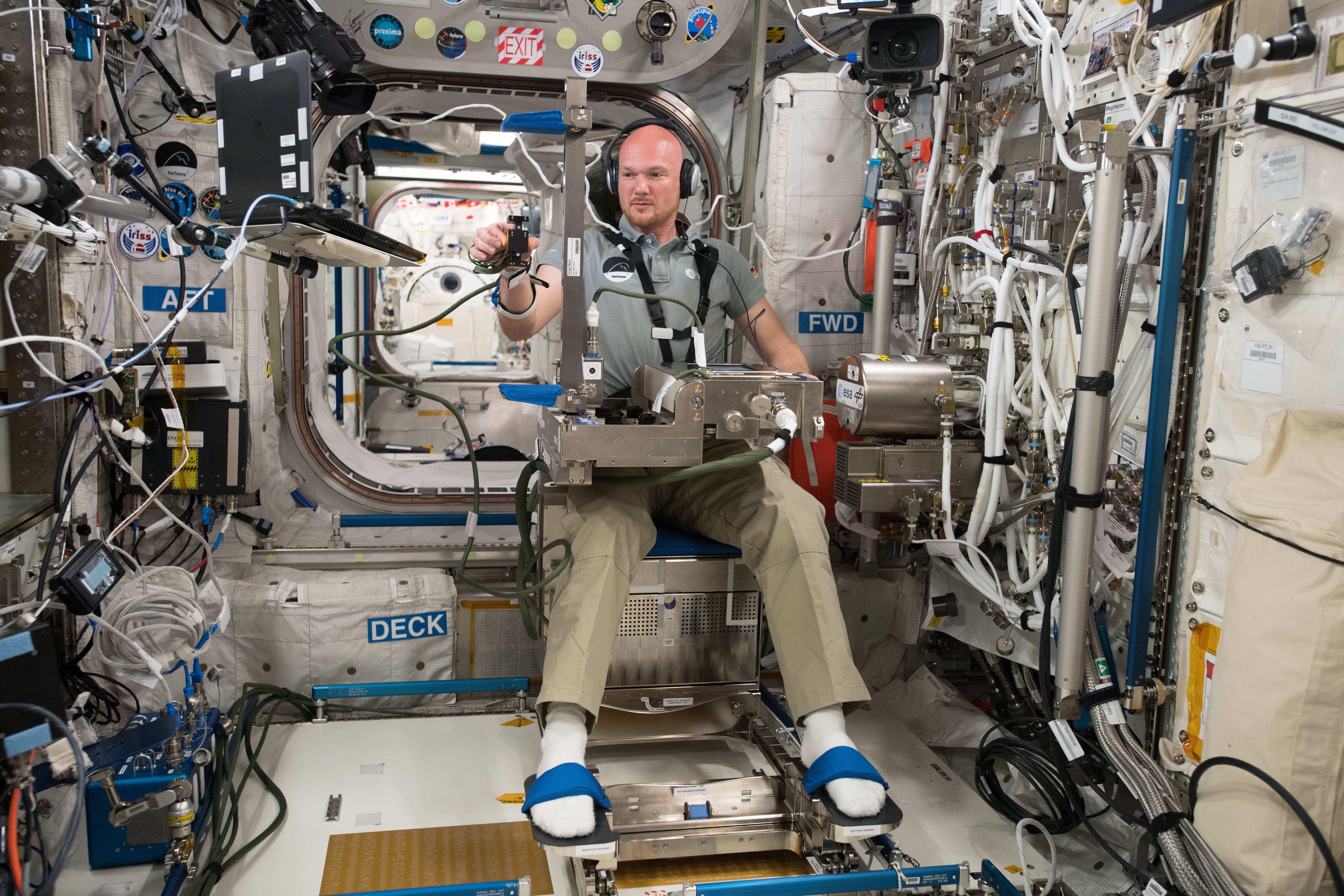 Expedition 56 Flight Engineer Alexander Gerst of the European Space Agency (ESA) is seated in the Columbus laboratory module participating in the Grip study. Grip is an ESA-sponsored experiment that is researching how the nervous system adapts to microgravity. Observations may improve the design of safer space habitats and help patients on Earth with neurological diseases.